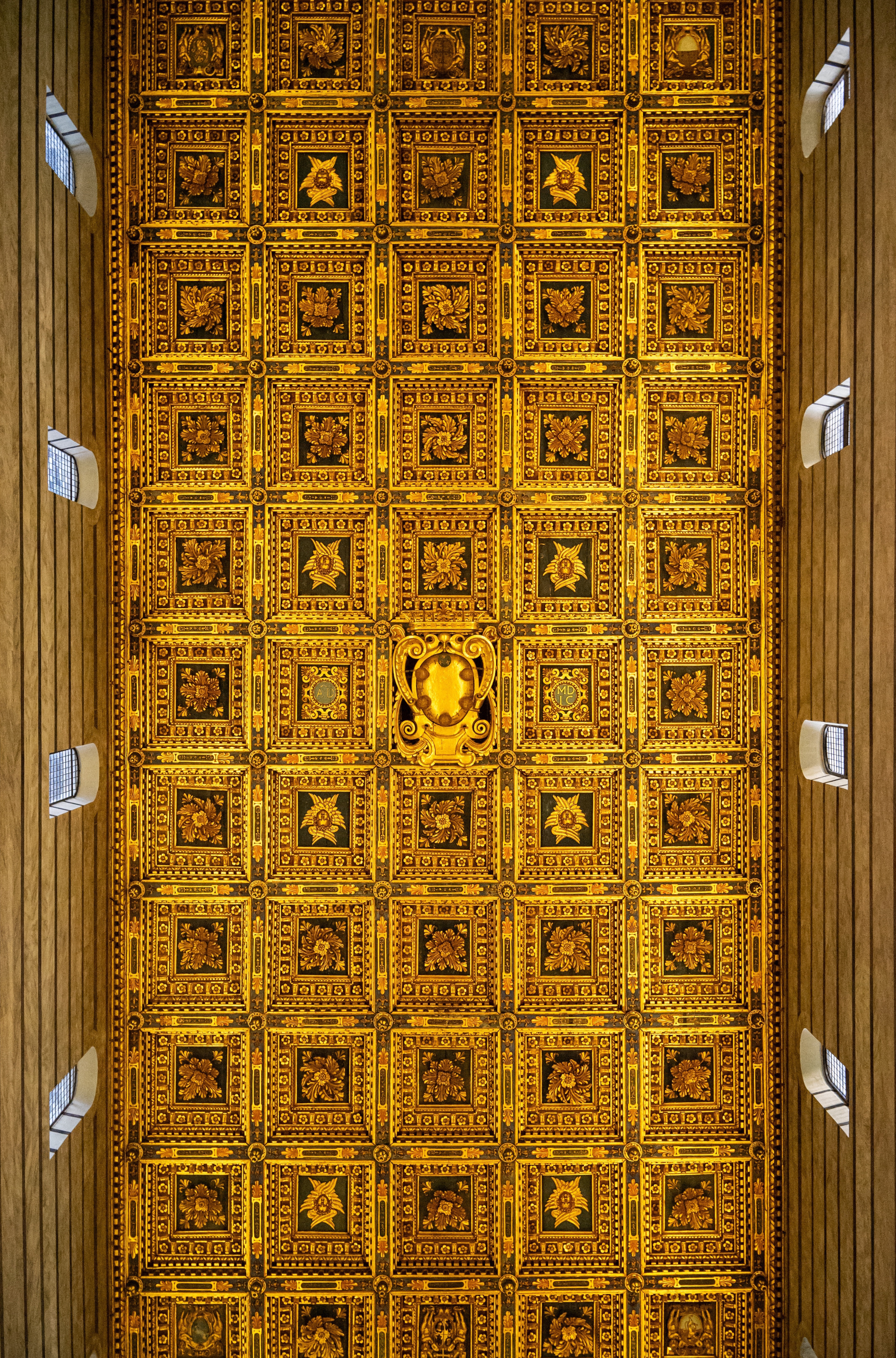 The wooden coffered ceiling of the central nave of the Pisa Cathedral, painted and decorated with golden leaf.